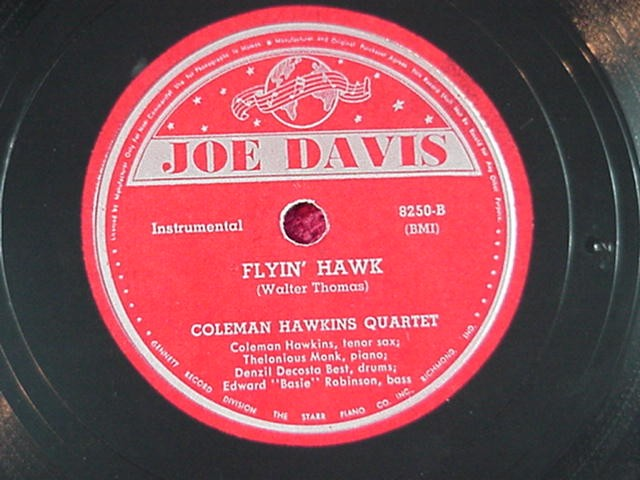 Flyin´ Hawk: Coleman Hawkins & Thelonious Monk, October 19, 1944